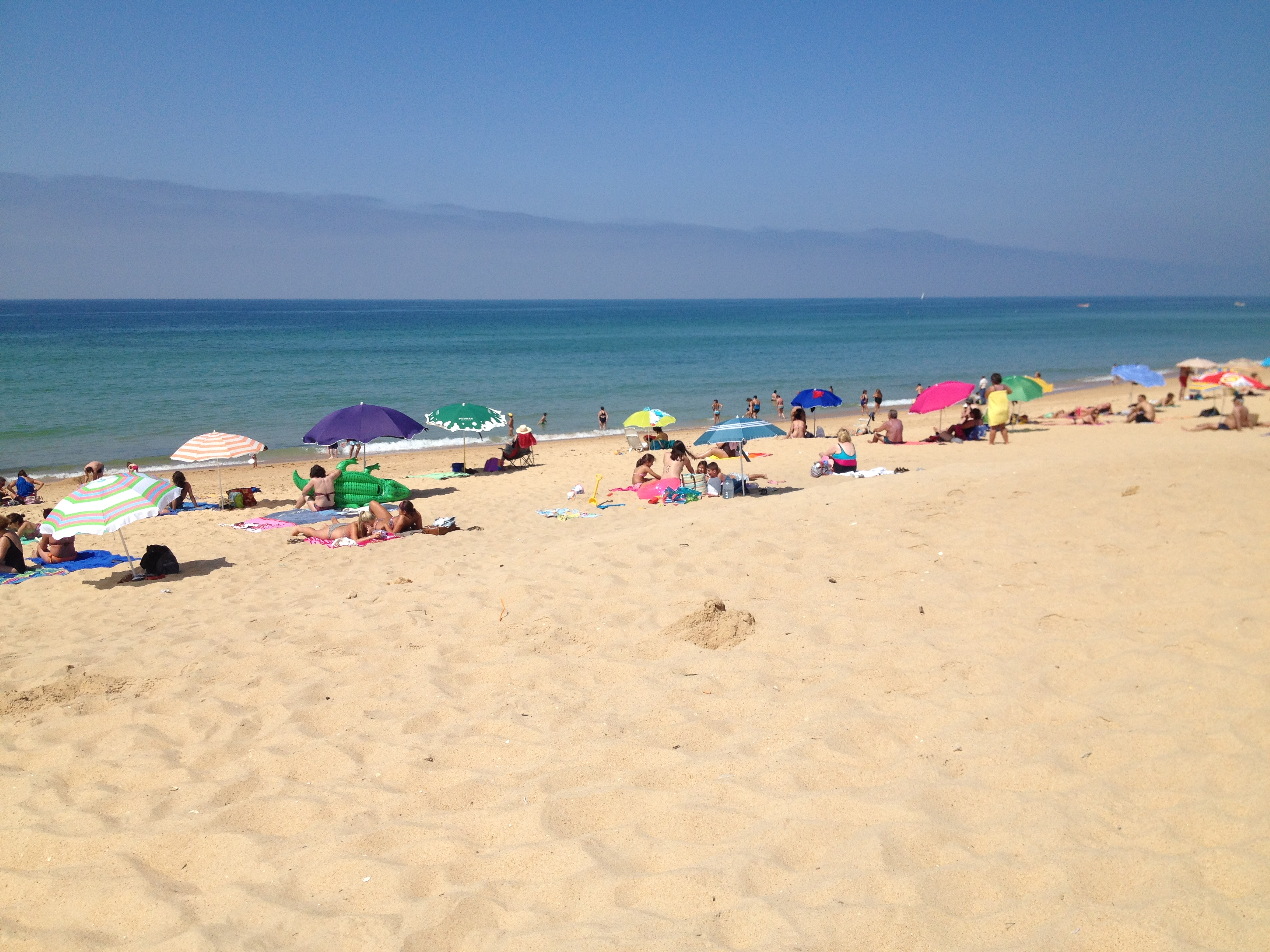 Faro region, Portugal.